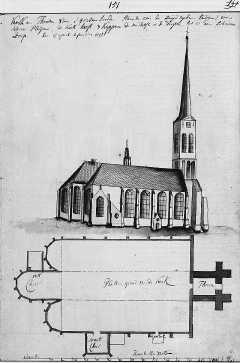 the old church of 's-gravenzande (The Netherlands) which was destroyed in the early 19th century